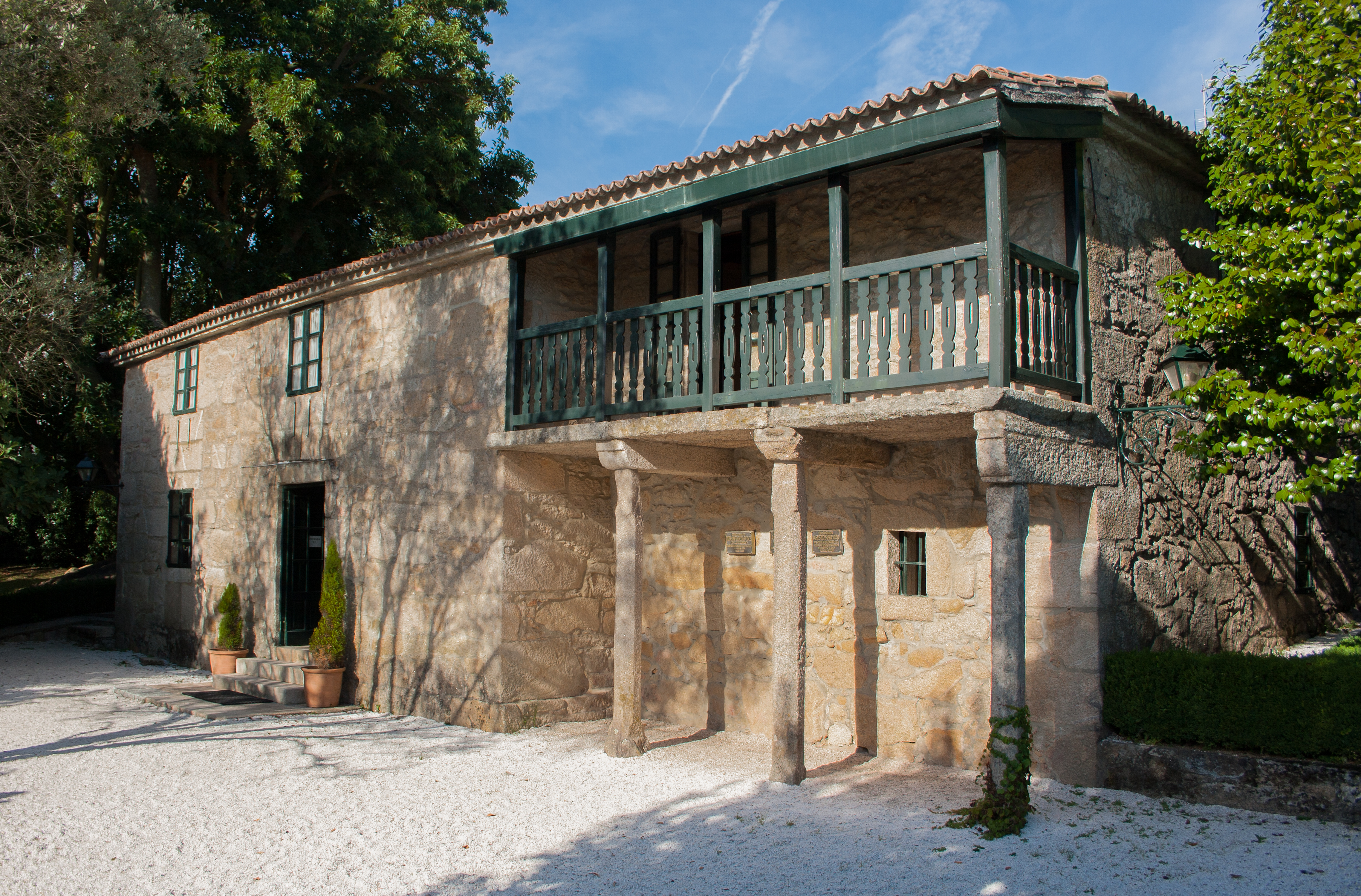 Facade of Rosalía de Castro Museum in Iria Flavia, Padrón, Galicia, Spain.